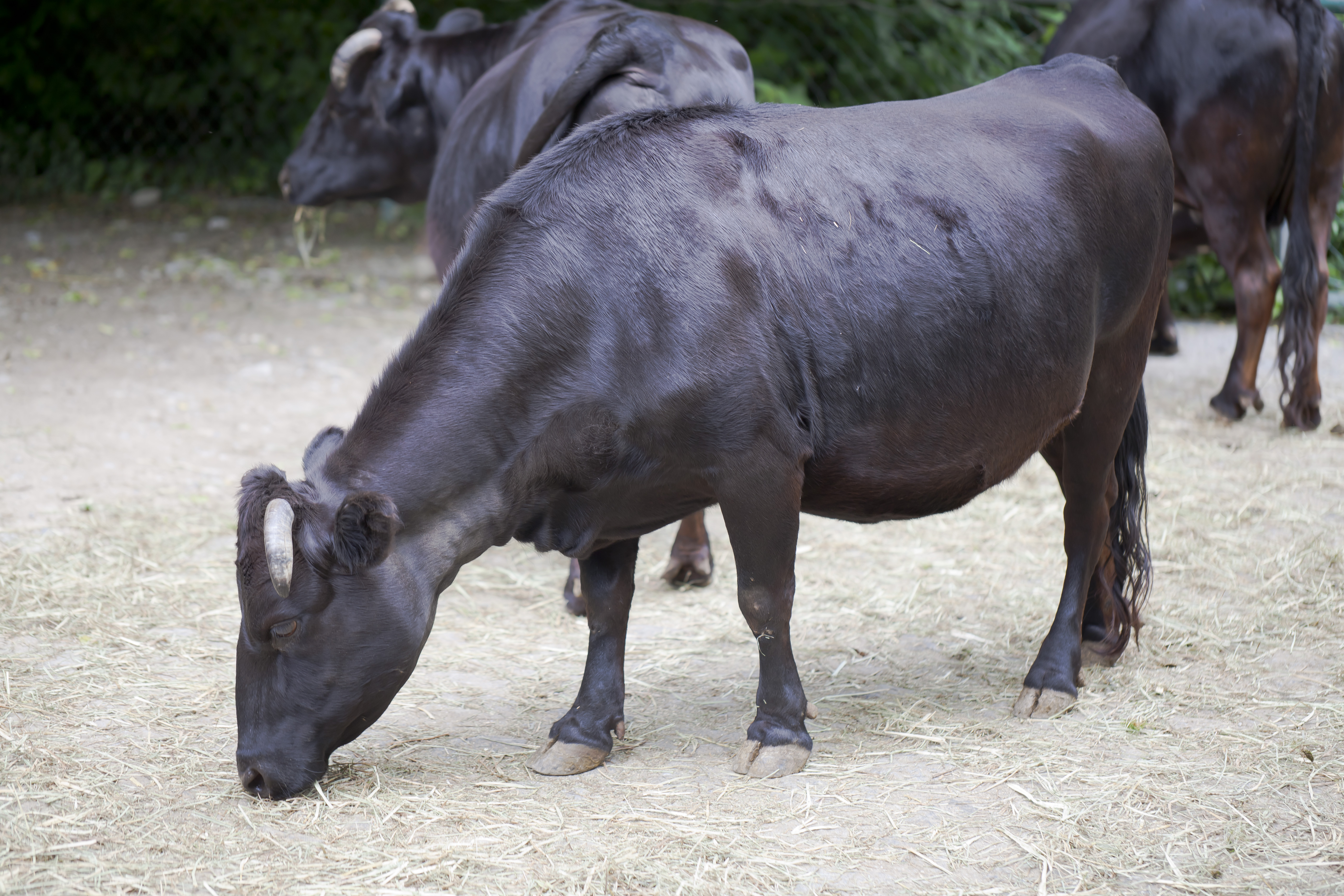 Cow (Bos primigenius taurus), Tierpark Hellabrunn, Munich, Germany